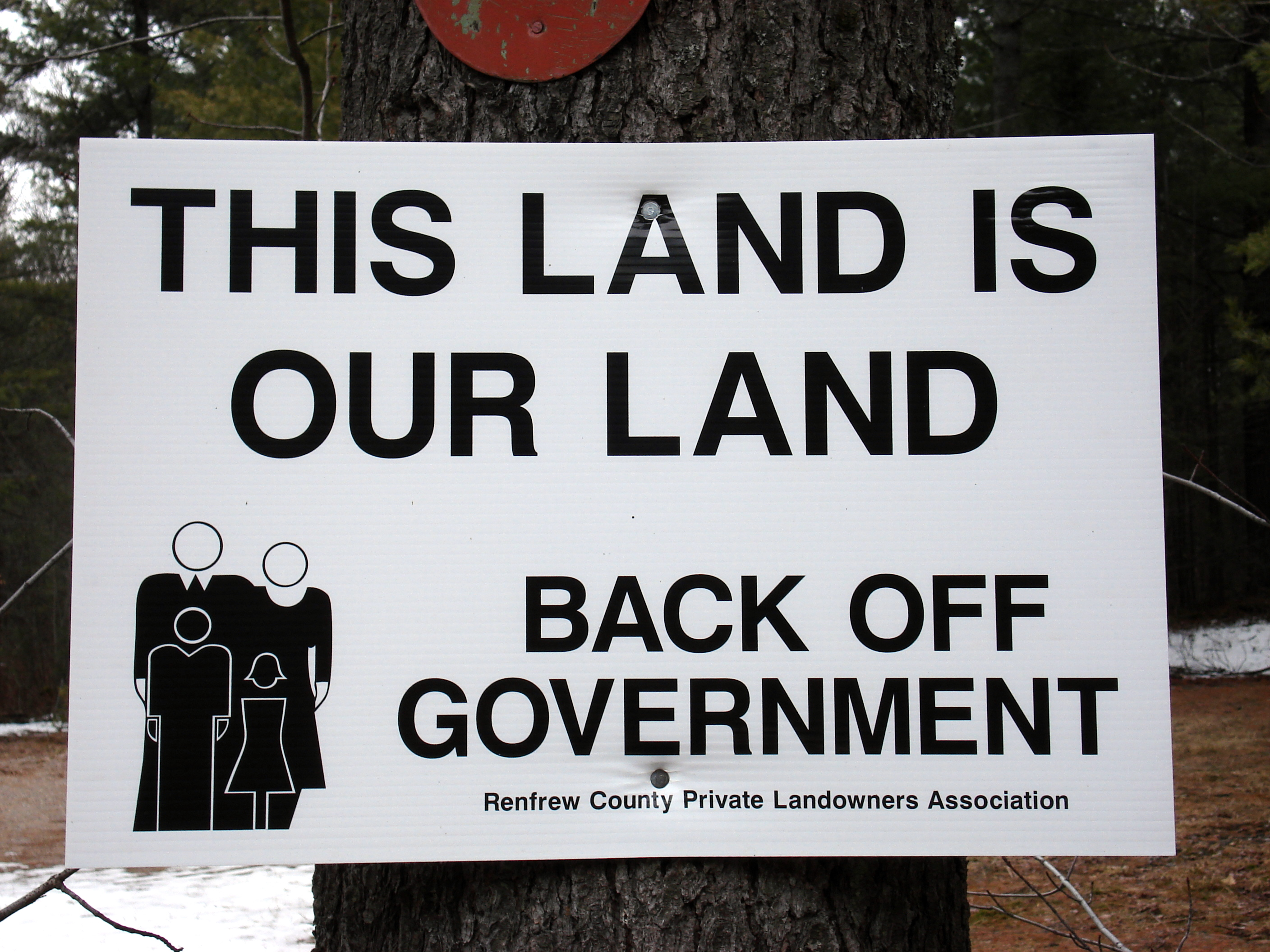 Sign with a libertarian political slogan in Renfrew County, Ontario